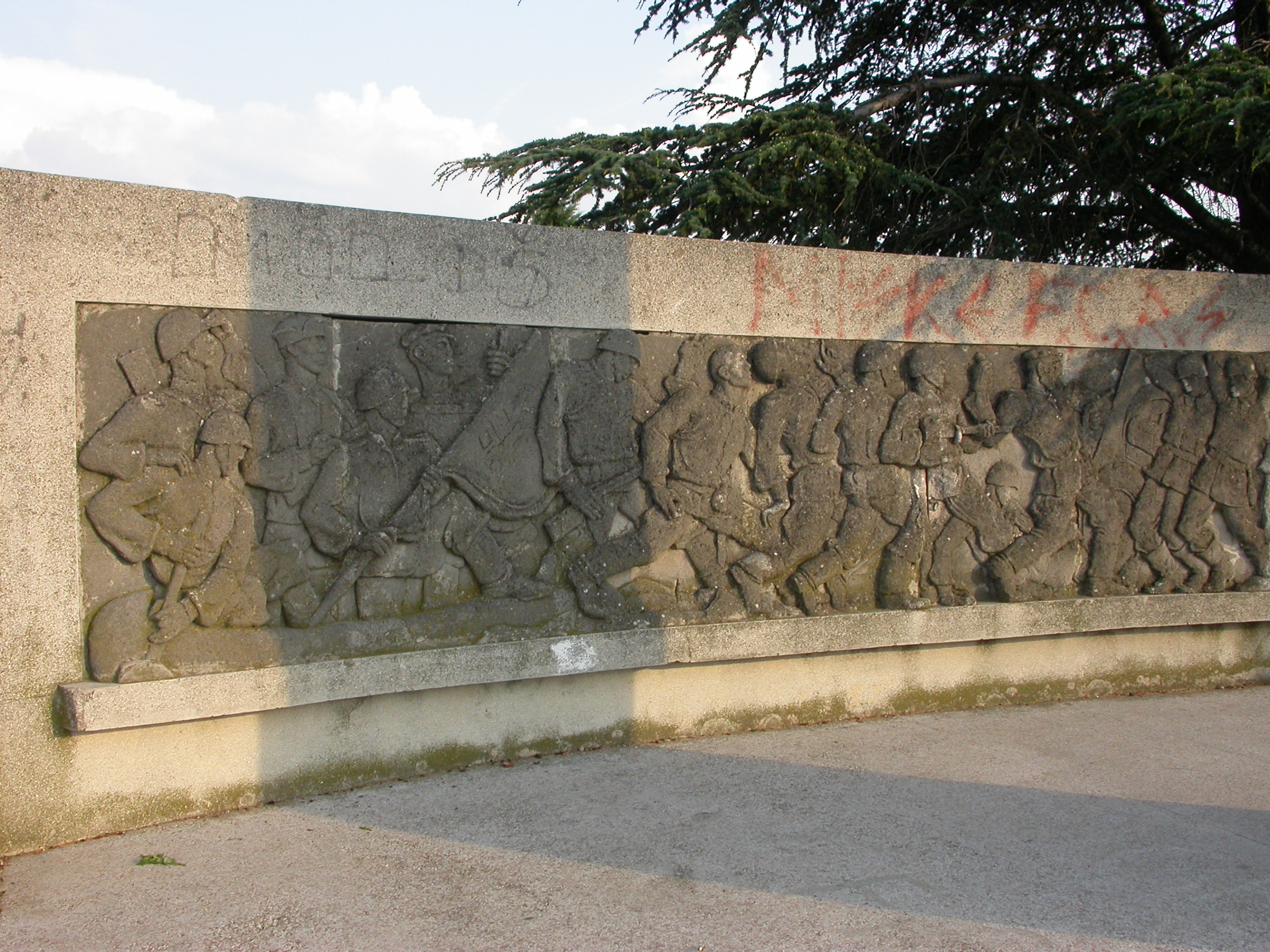 Monument in Ritopek, Grocka- Belgrade